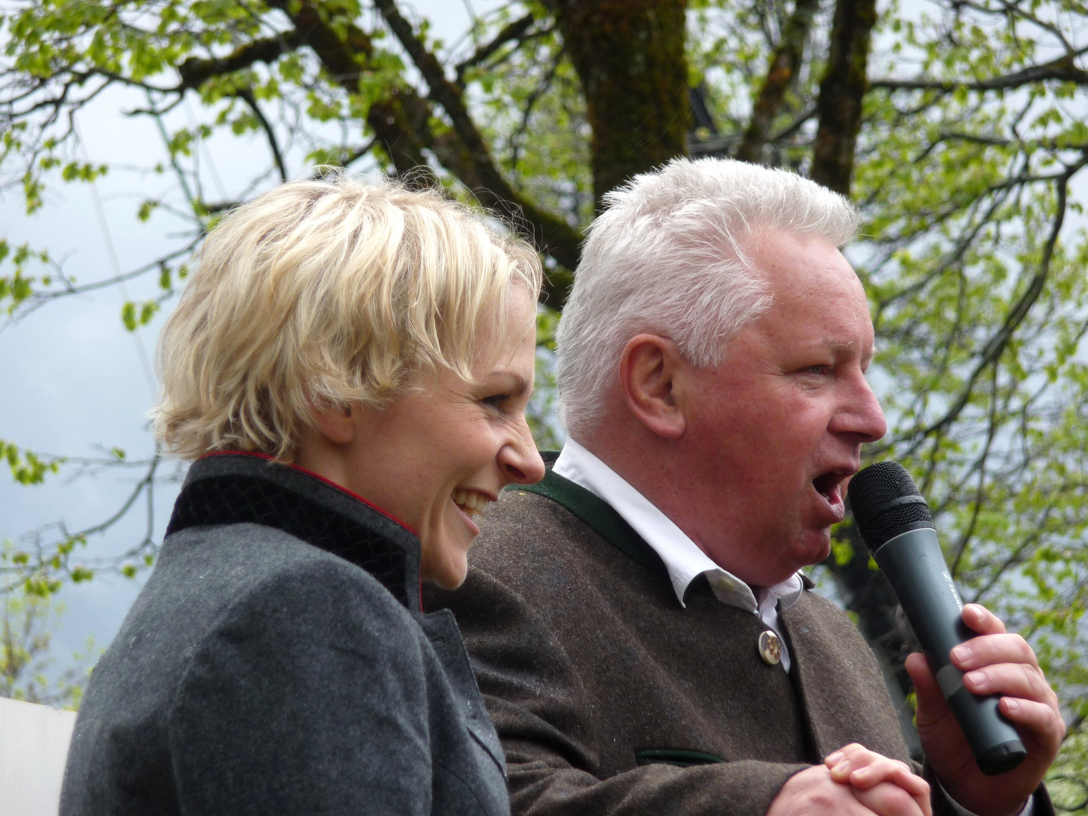 Sports reporter Sigi Heinrich at farewell party for biathlete Martina Beck in Mittenwald, Germany